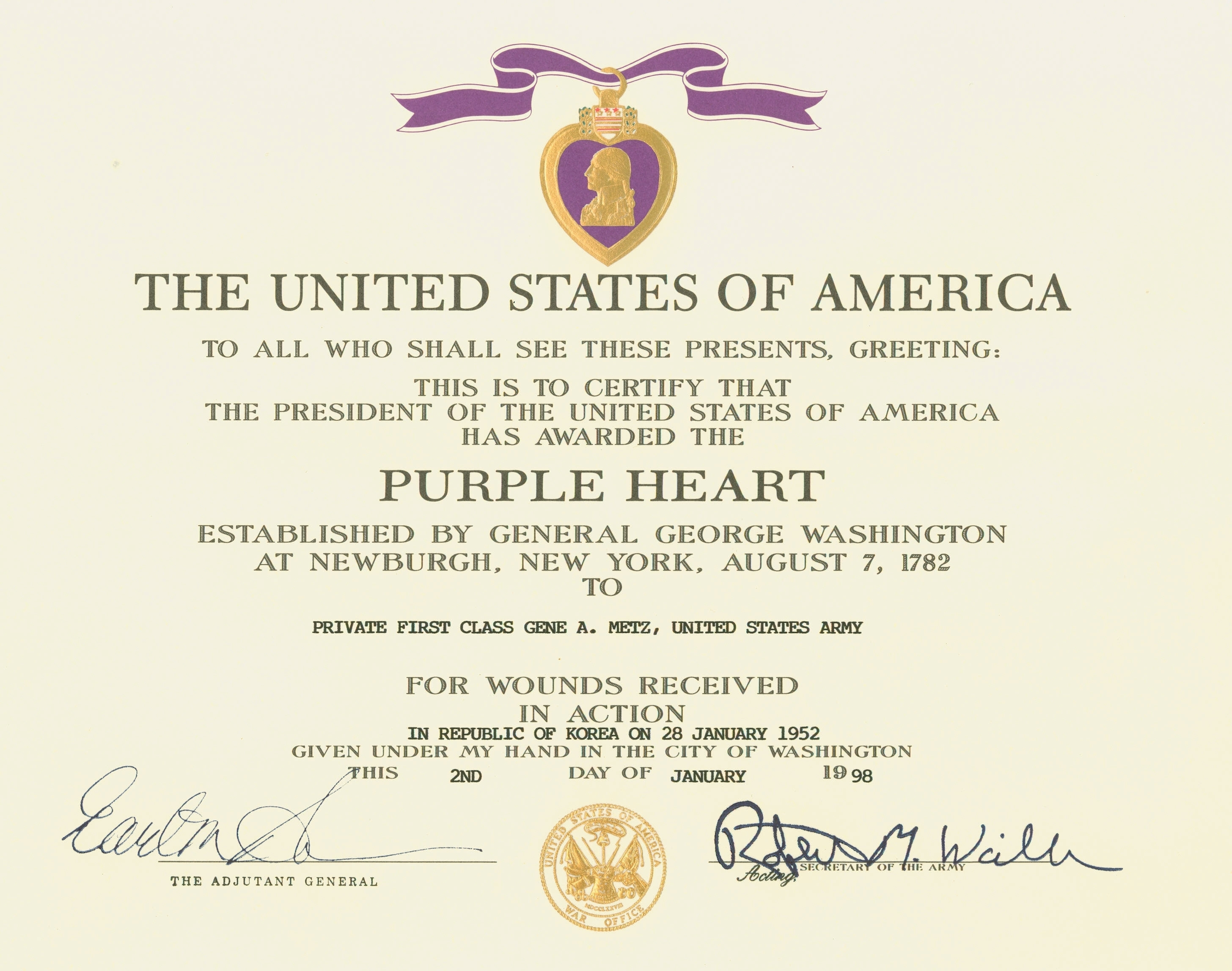 This certificate indicates that a Purple Heart was awarded to Private First Class Gene A. Metz, who was killed in action on 28 January 1952 in Korea. Metz served with Company I, 31st Infantry Regiment, 7th Infantry Division. His twin brother Dean served in the same unit and survived the war. (Dean A. Metz Collection).